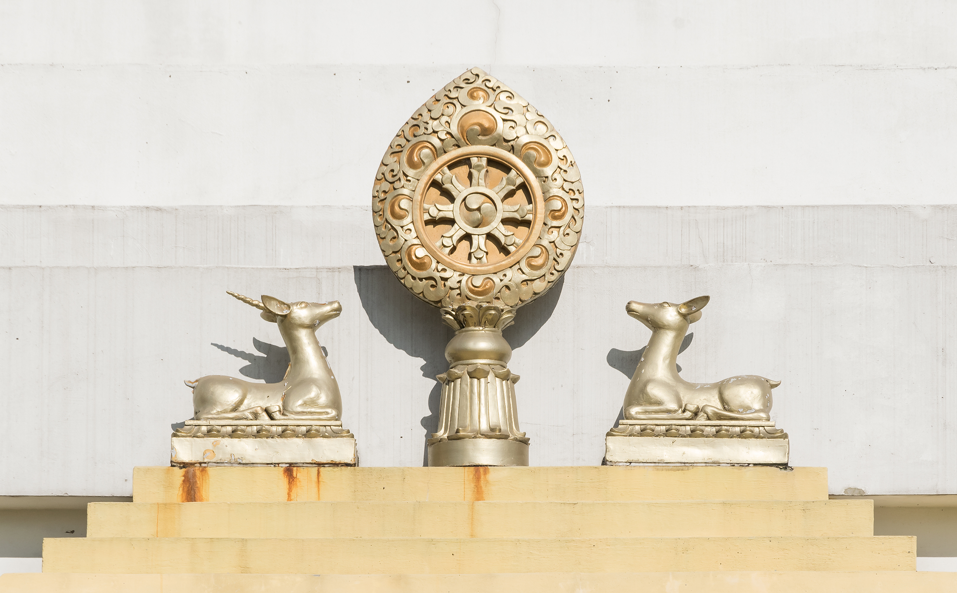 Stupa in Gompa Drophan Ling in Darnków, Dharmachakra